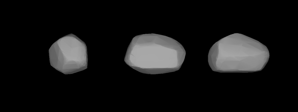 A three-dimensional model of 260 Huberta that was computed using light curve inversion techniques.